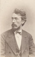 Plate 13 Photograph album of German and Austrian scientists. Mainz: Dr. G. Weirich; R. Löhbach; Prof. Dr. Paul Reis; Dr. Ludwig Noiré; Dr. M. Munier; von Reichenau; Victor Zeppenfeld, Flensburg; Arthur Fitger, Bremen.